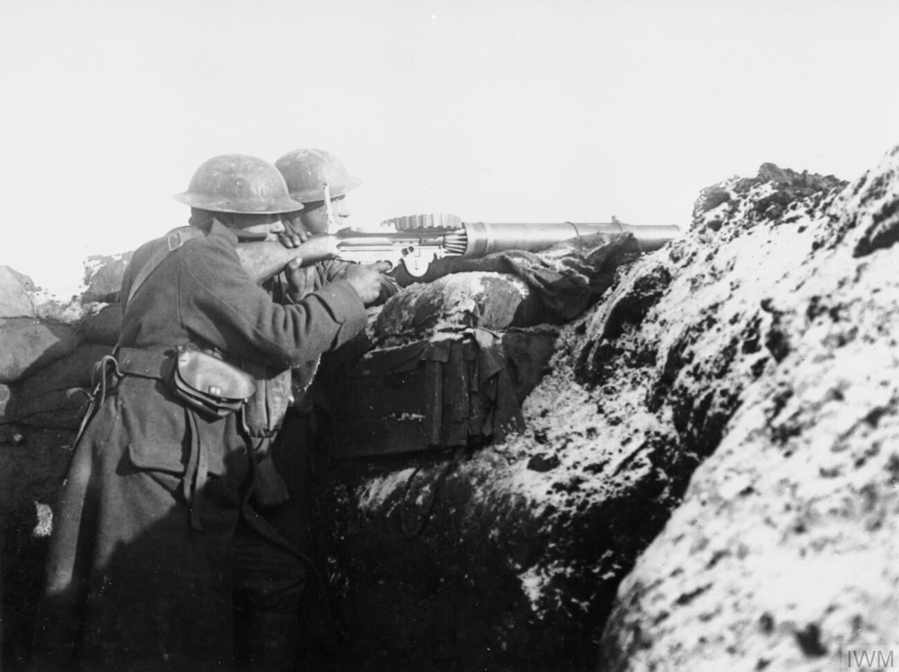 A general view of a Lewis gun post in a trench held by 15th Royal Scots, probably near Croissilles.